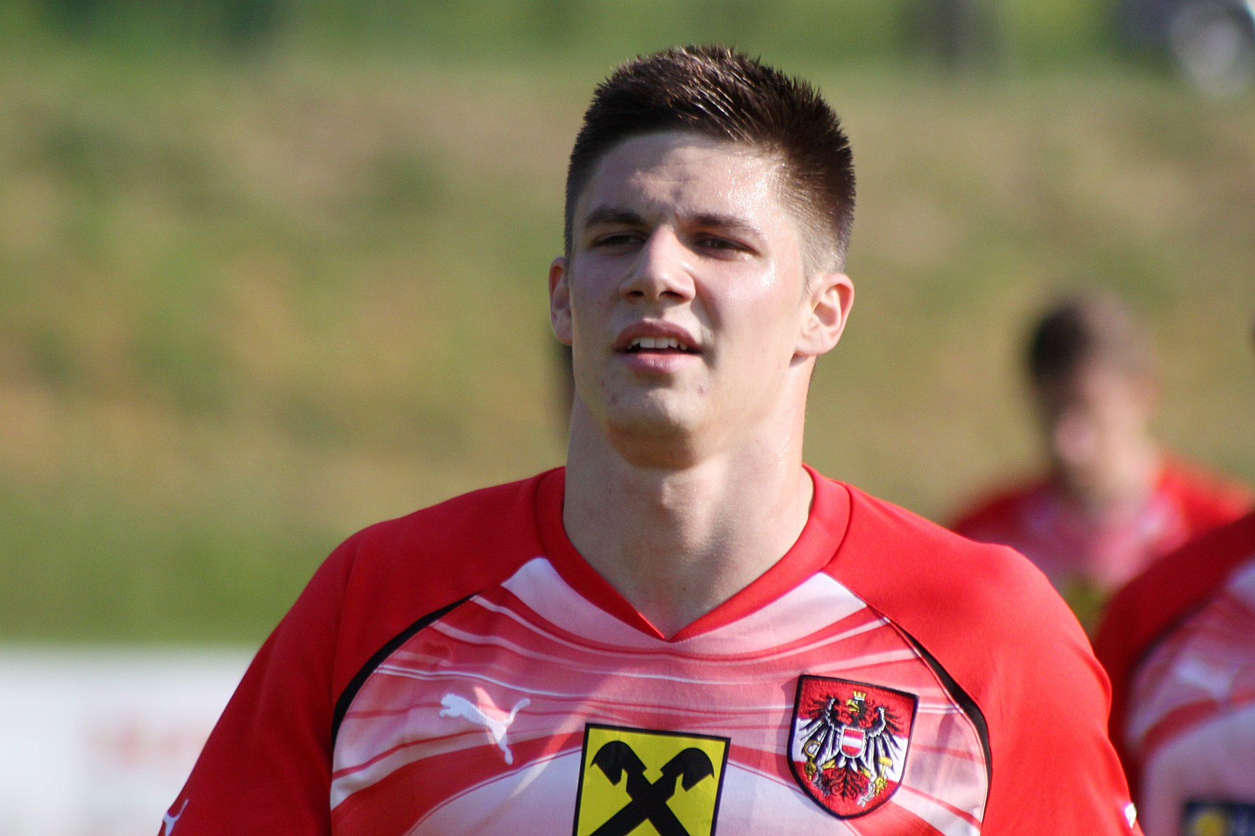 Patrick Farkas (SV Mattersburg) - Austria national under-21 football team (age group 1990).